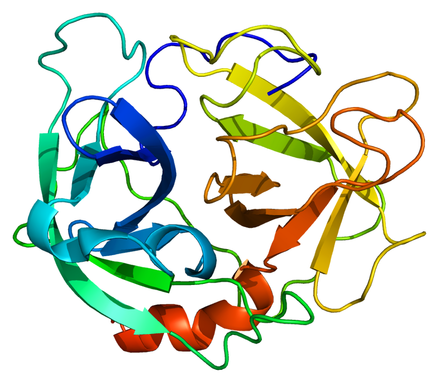 Structure of the ELA2 protein. Based on PyMOL rendering of PDB 1b0f.